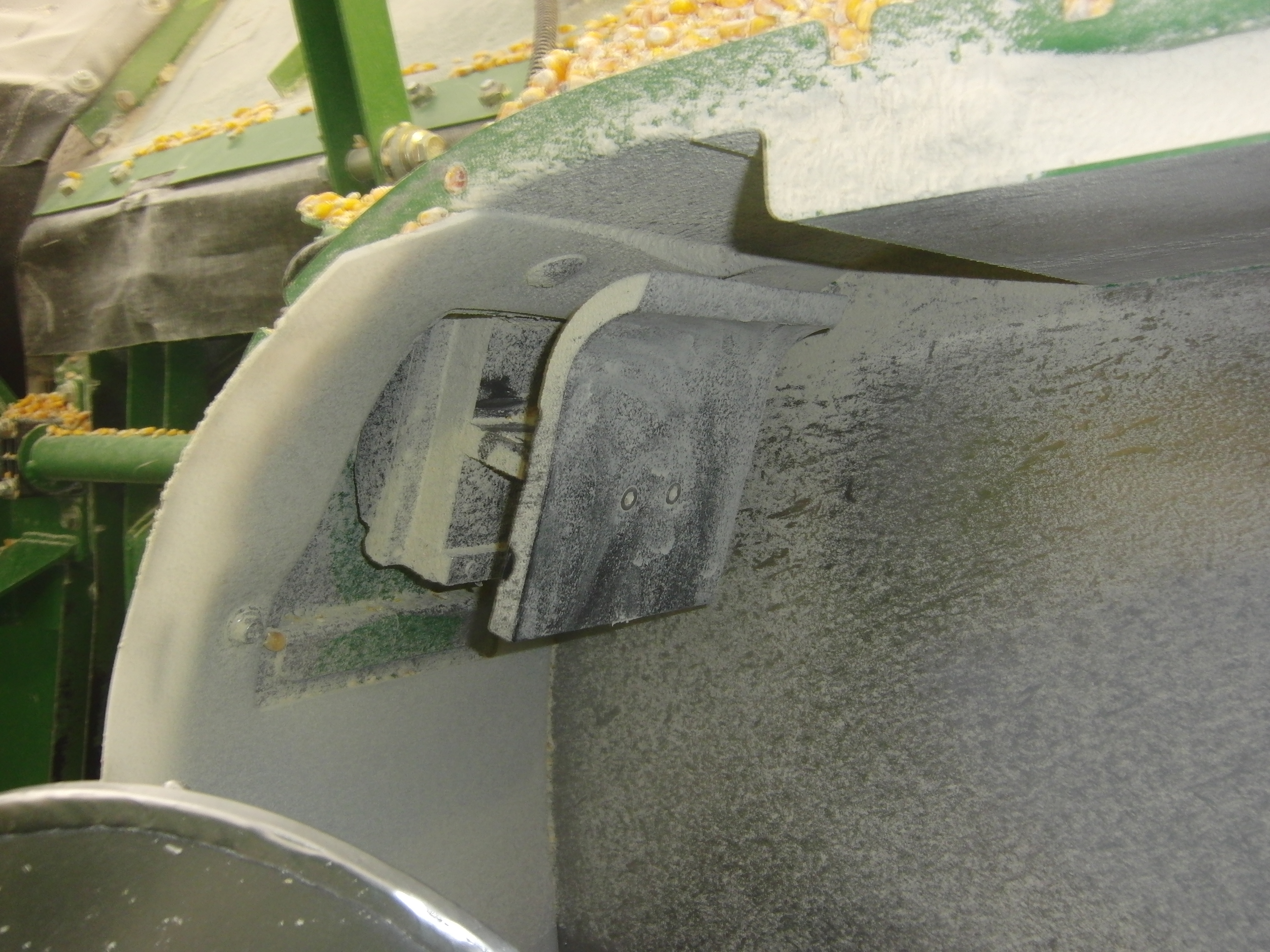 picture of a grain yield sensor impact plate located at the top of the clean grain elevator